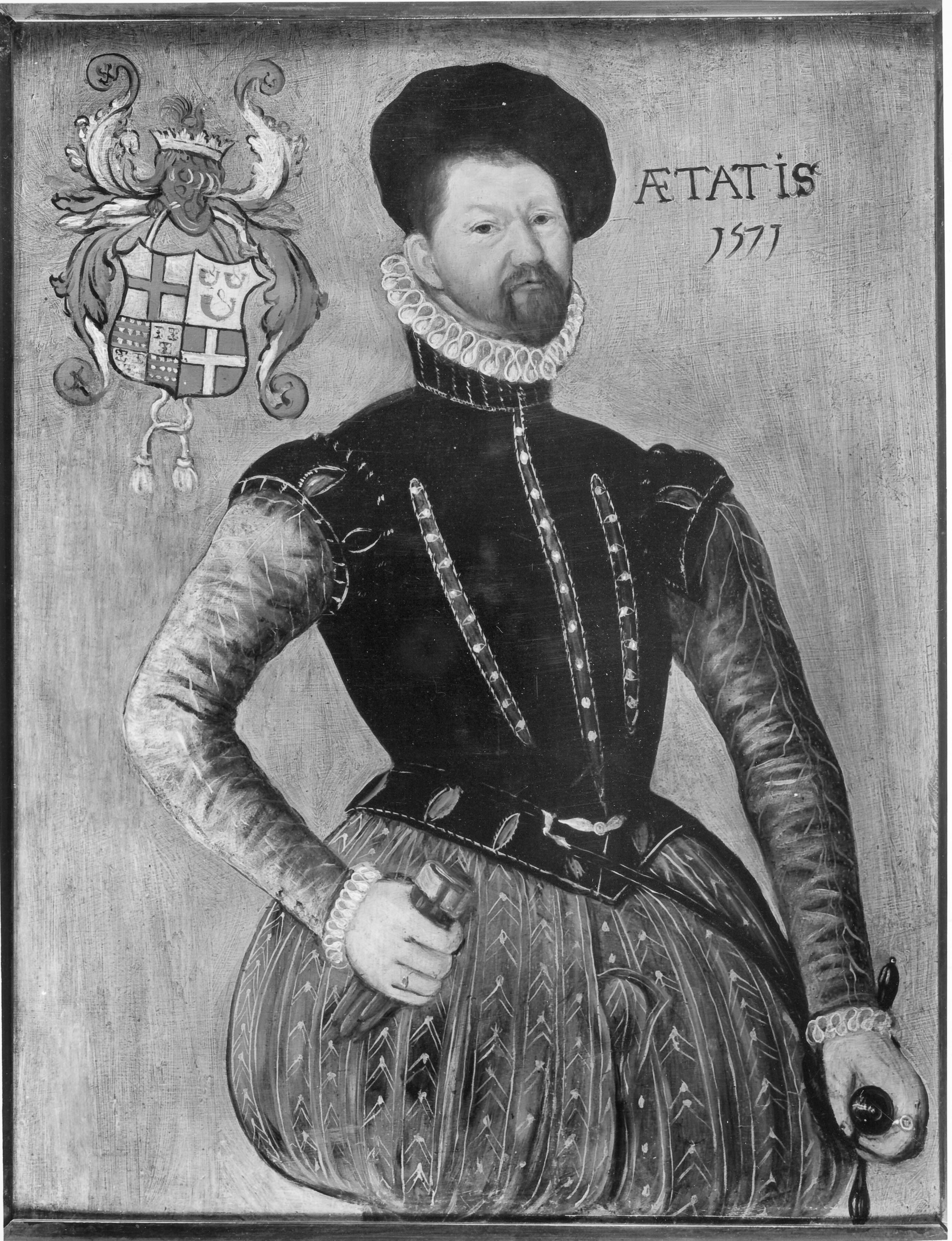 Inv./cat.nr 42/71 - RKD